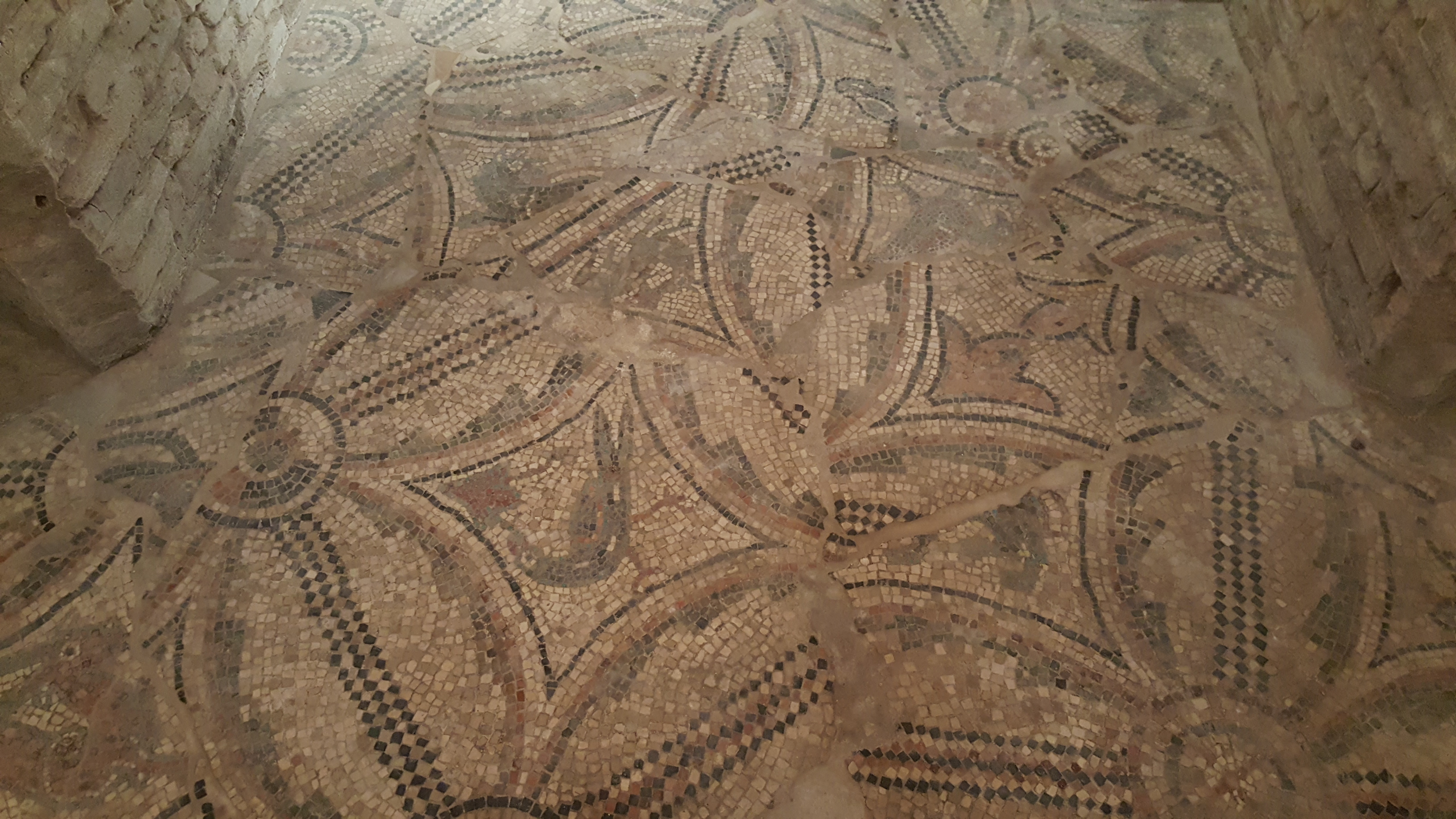 This is a photo of a monument which is part of cultural heritage of Italy.